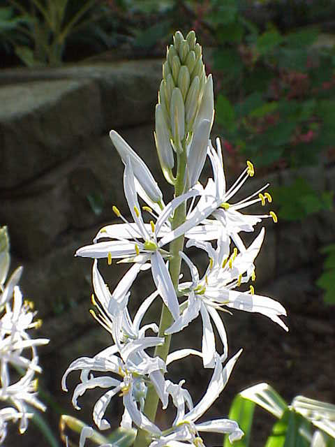 Species: Camassia cusickii Family: Hyacinthaceae Image No. 4